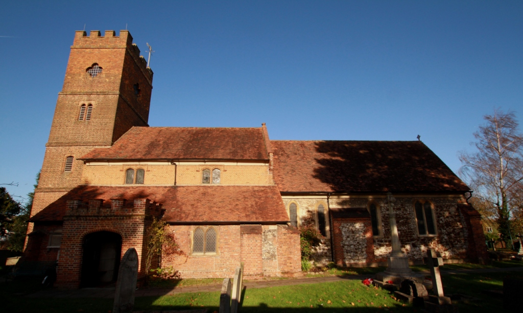 St Mary Magdalene parish church, Littleton, Middlesex: view from the south